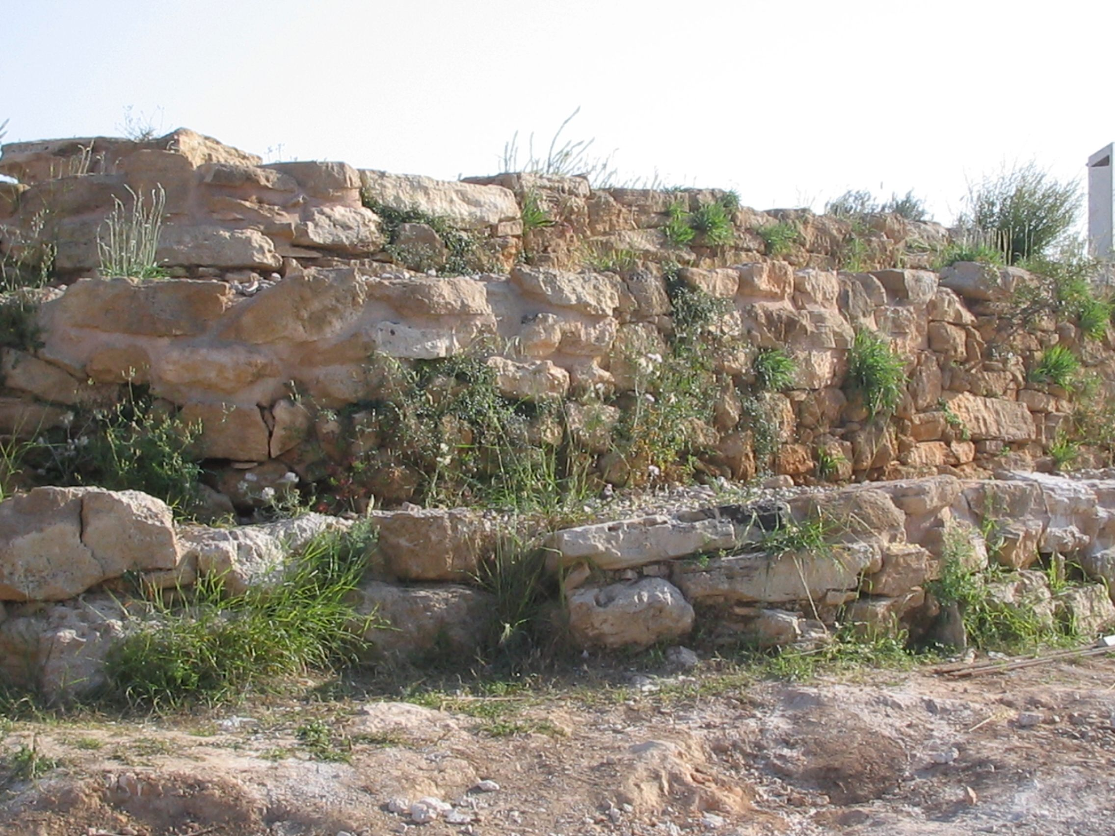 A spanish archaeologic burial site in a town called Son Ferrer in Mallorca.